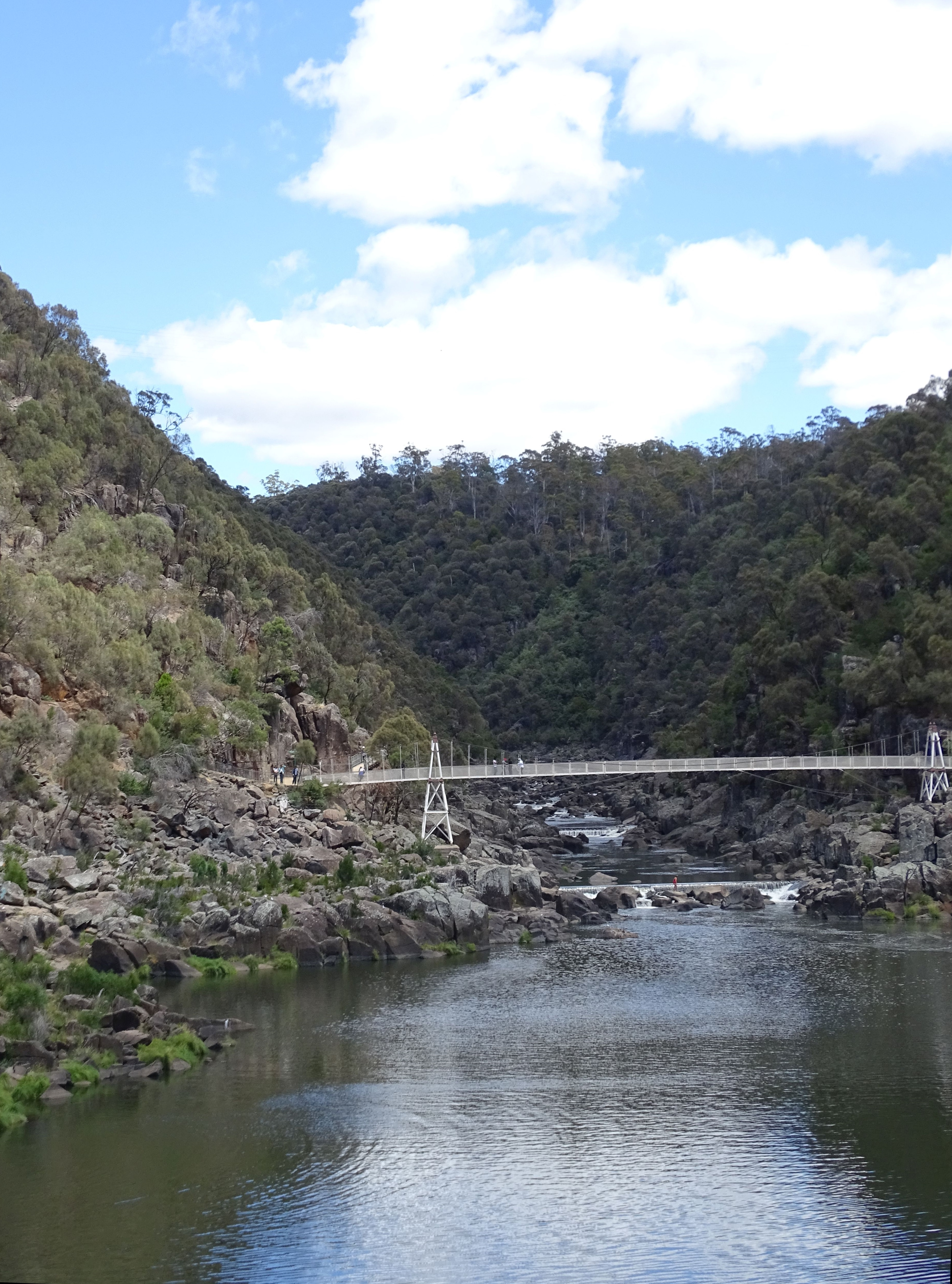 First Basin and the Alexandra Suspension bridge, Cataract Gorge, Launceston, Tasmania